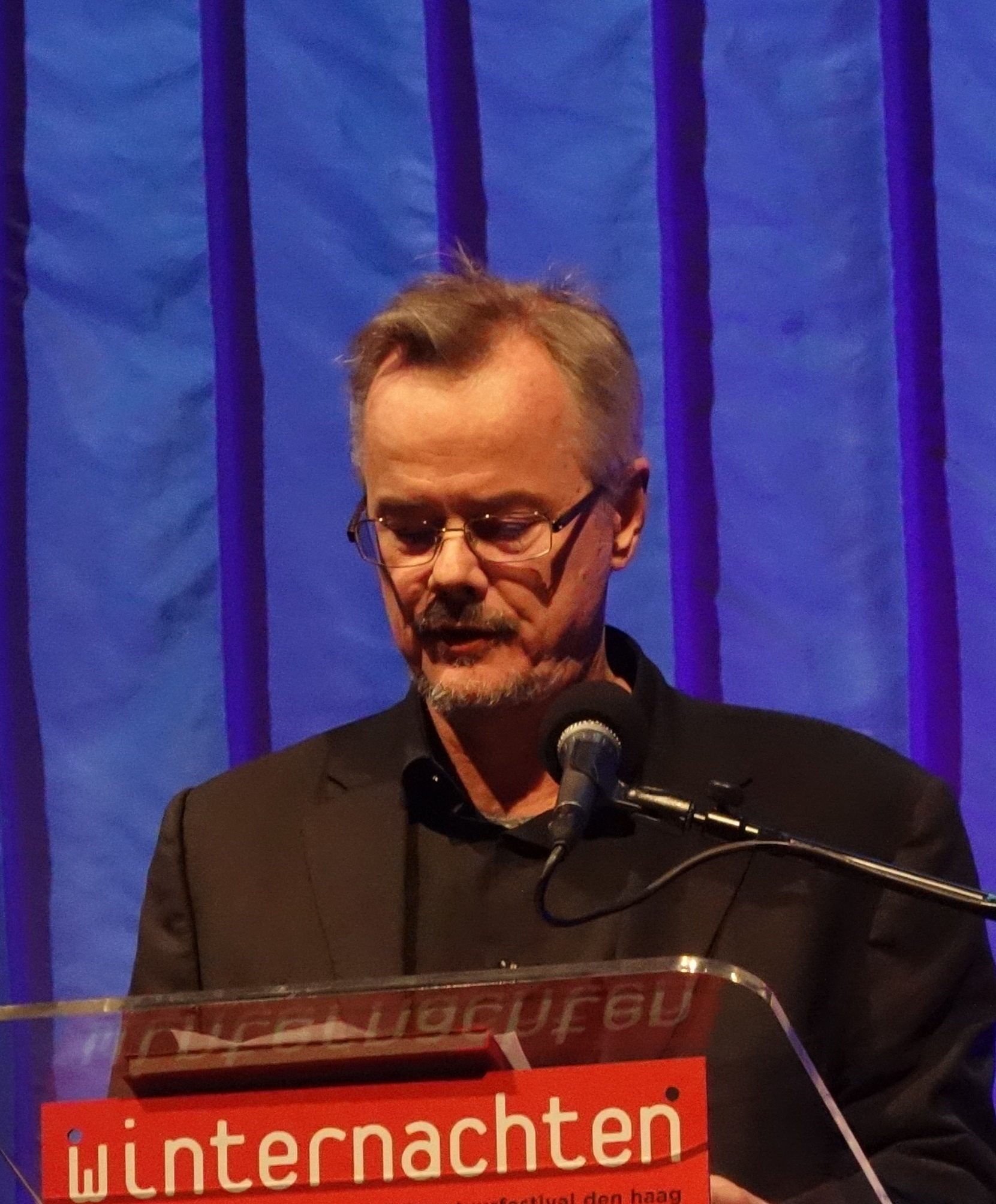 Dutch writer Jan van Aken at Winternachten Festival 2019, The Hague